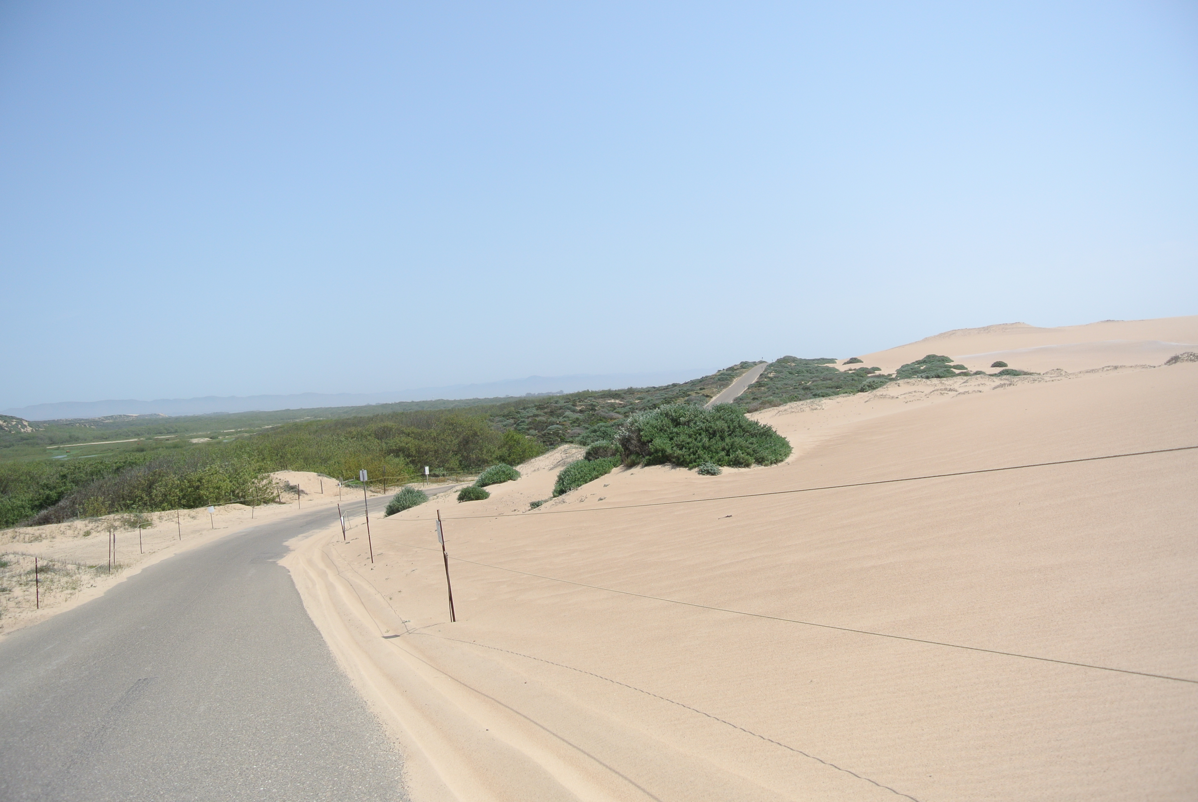 West main street and transition zone (back dunes), Guadalupe Dunes County Park on the right (also called Rancho Guadalupe Dunes).